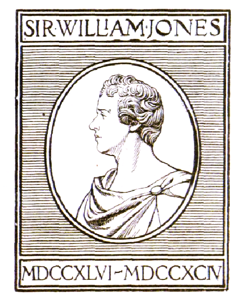 Logo of the Asiatic Society of Bengal in 1905 depicting Sir William Jones